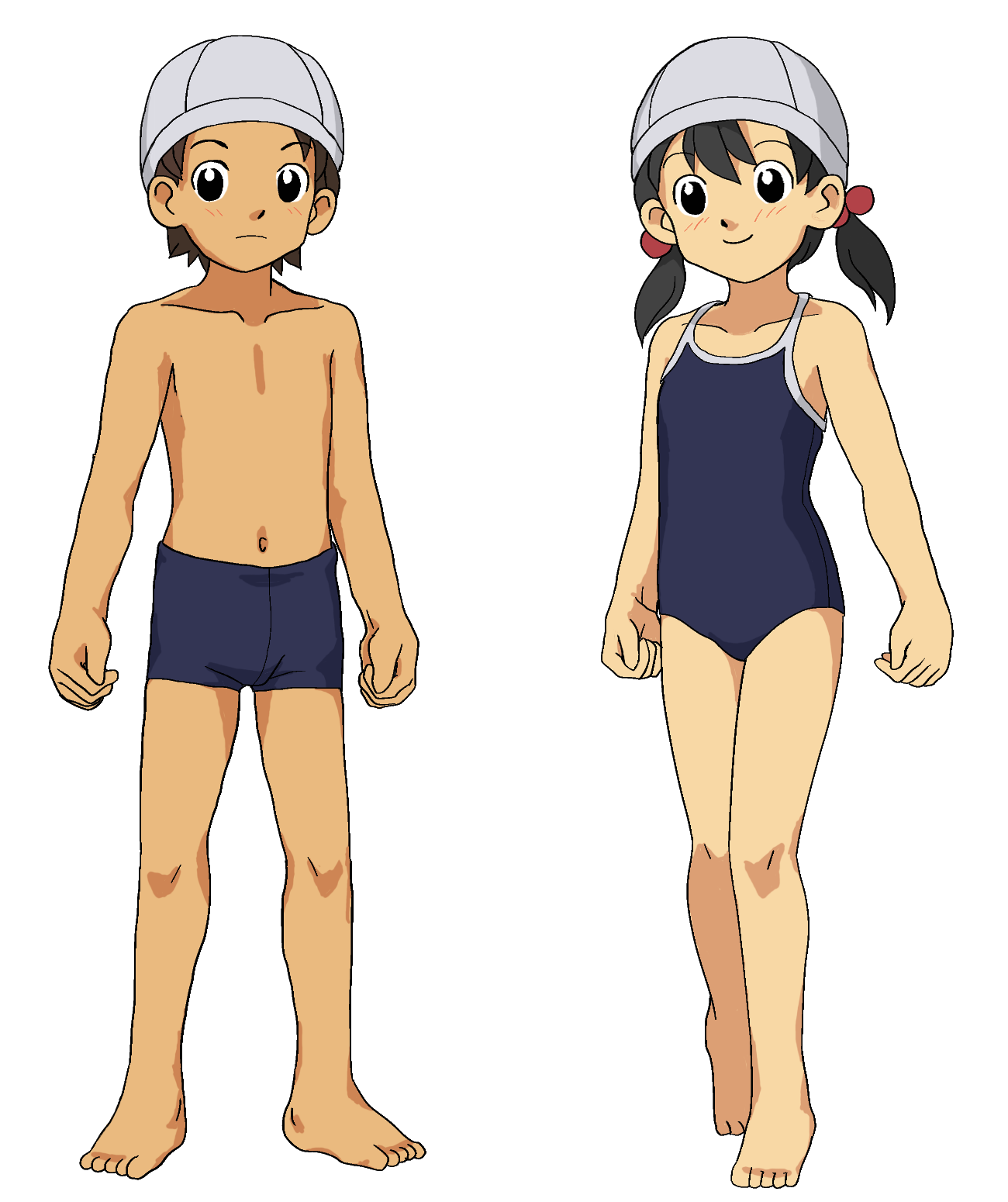 A Japanese school-swimsuits example for スクール水着